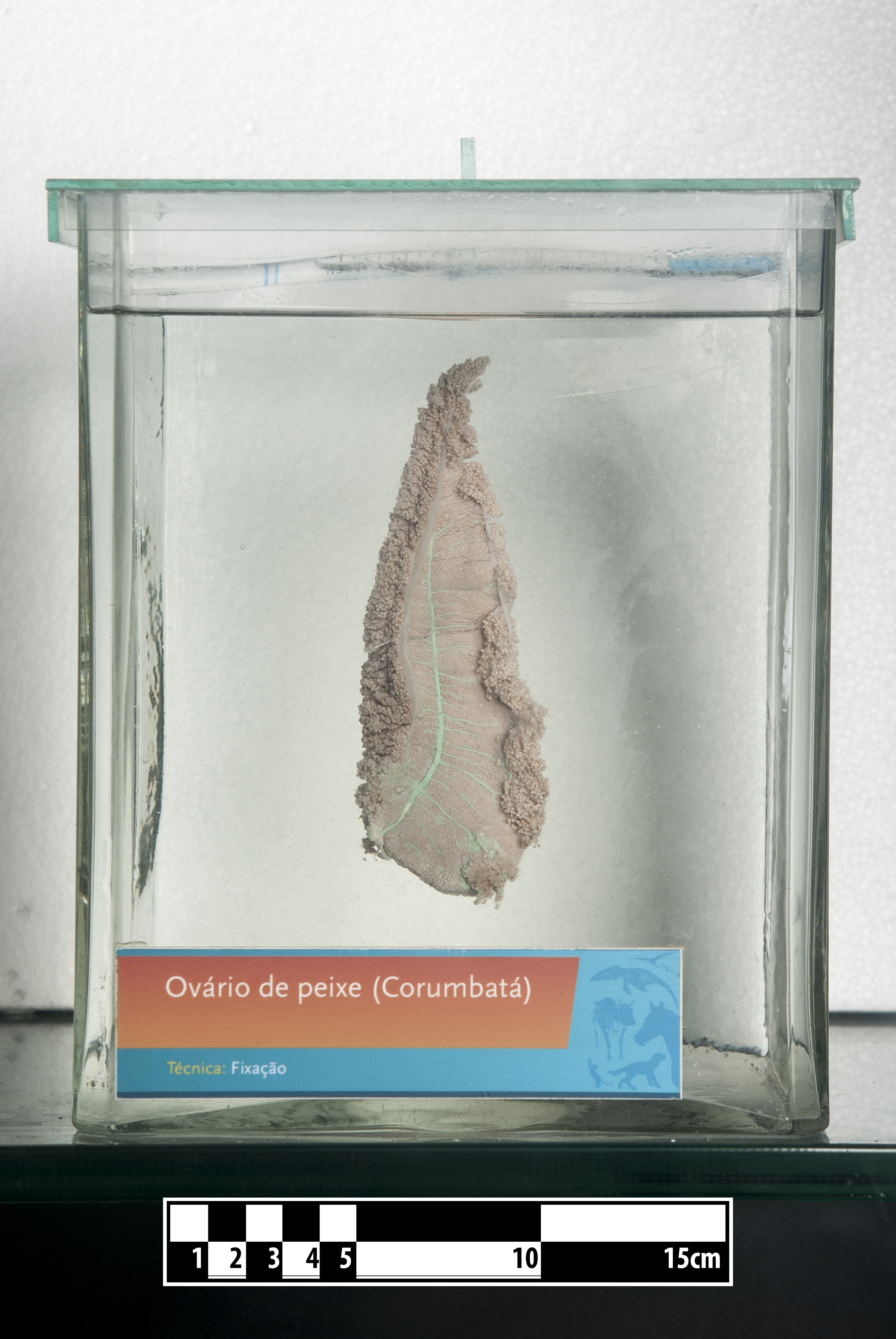 Ovary of Prochilodus lineatus (streaked prochilod). Technique of latex injection and formalin fixation on display at the Museum of Veterinary Anatomy, FMVZ USP. This file was published as the result of a partnership between the Museum of Veterinary Anatomy FMVZ USP, the RIDC NeuroMat and the Wikimedia Community User Group Brasil. This GLAM project is reported.